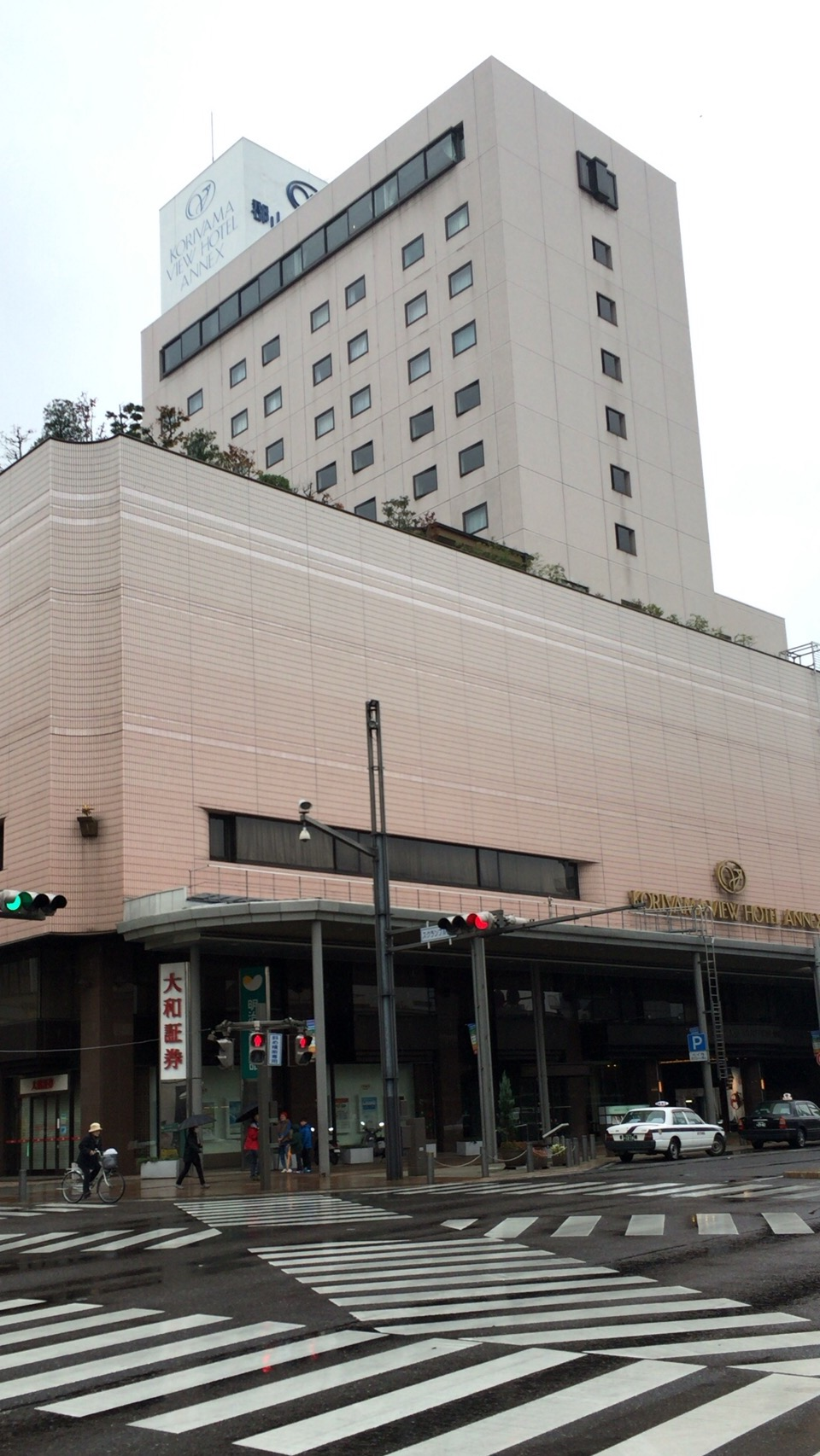 Koriyama View Hotel Annex